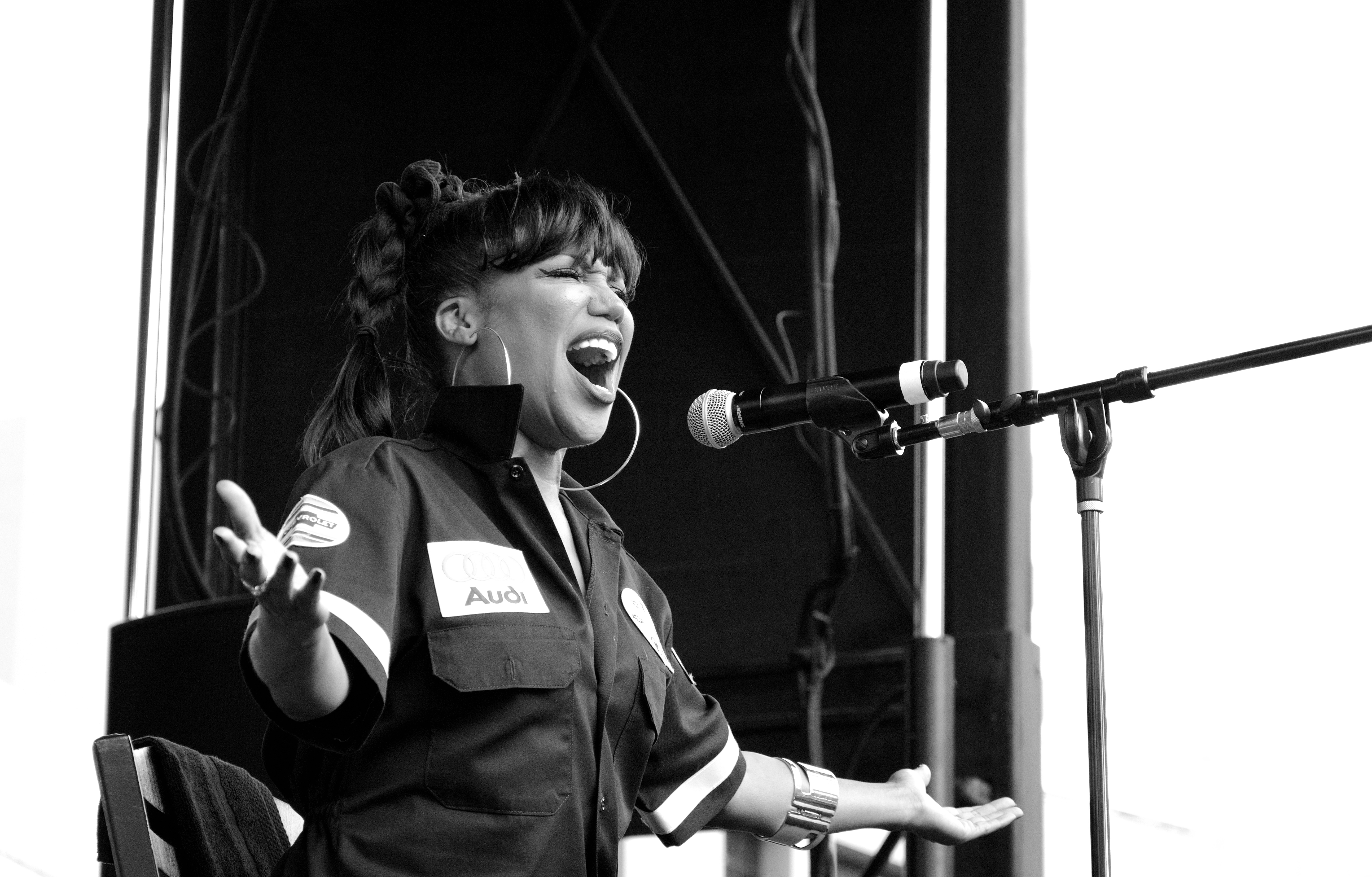 Michel'le in Concert